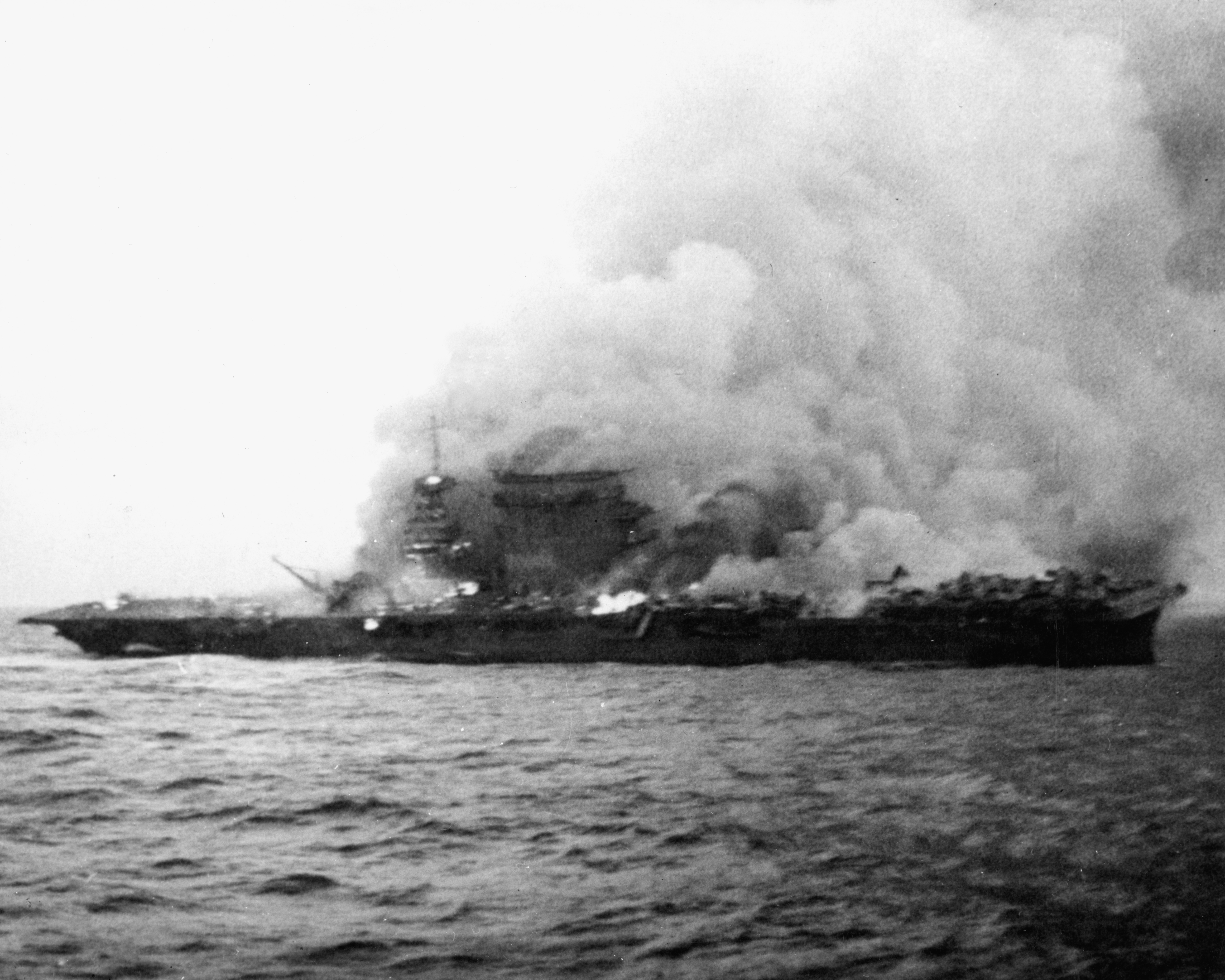 The U.S. Navy aircraft carrier USS Lexington (CV-2), burning and sinking after her crew abandoned ship during the Battle of the Coral Sea, 8 May 1942. Note the planes parked aft, where the fires have not yet reached.